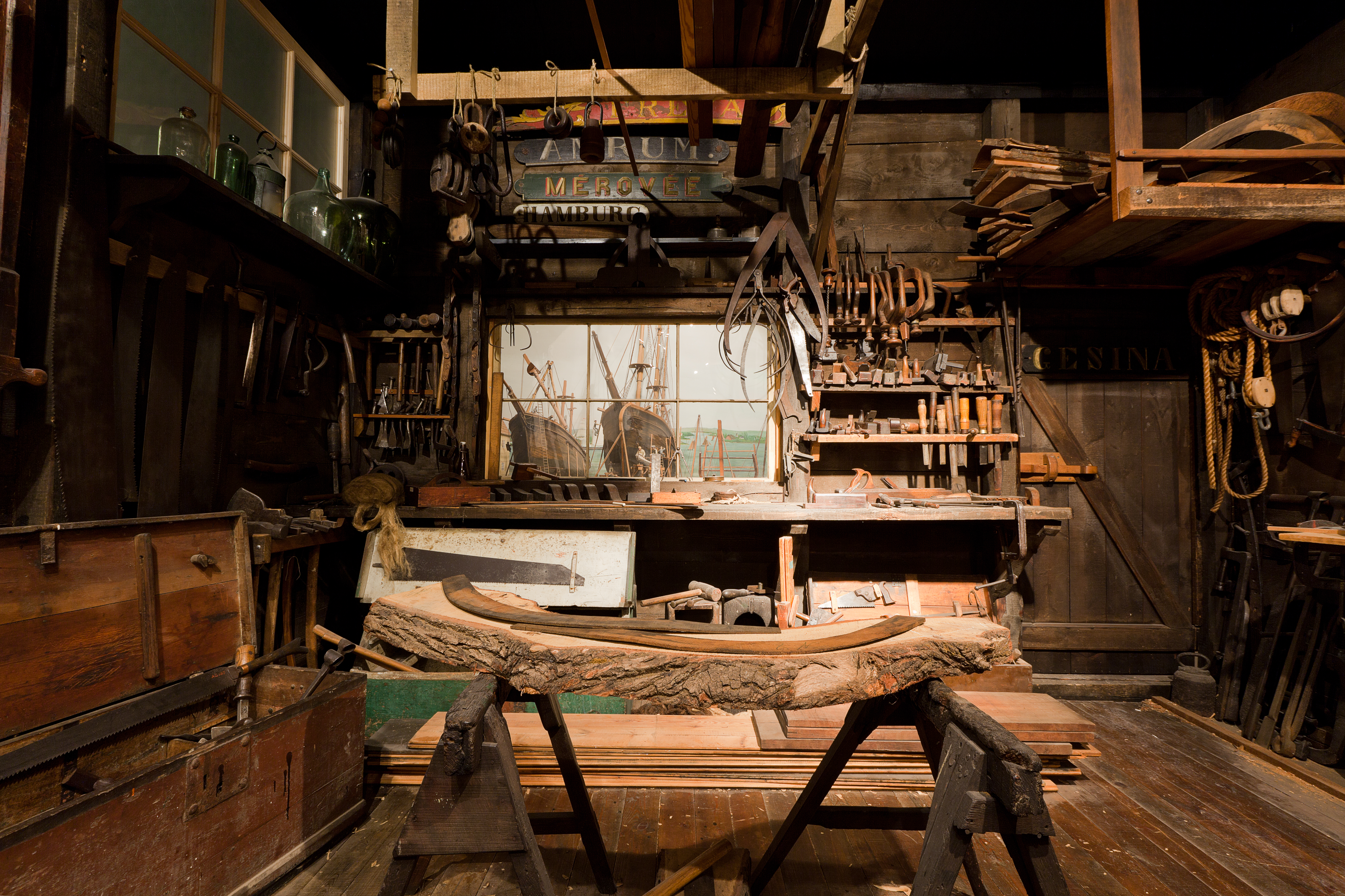 A ship's carpenter's workshop at the Altonaer Museum, Hamburg, Germany.